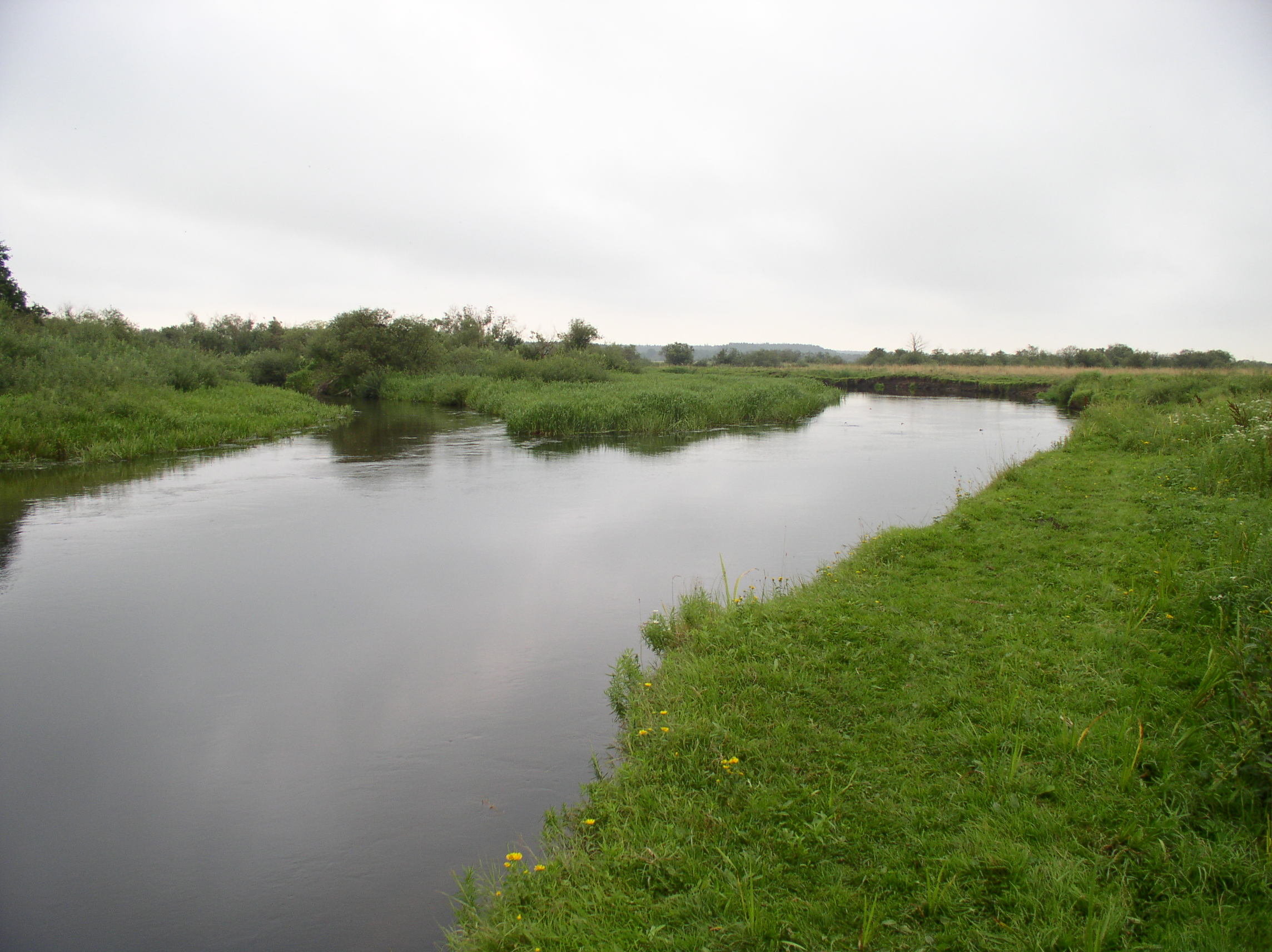 Junction of Neman and Sula rivers, Belarus.